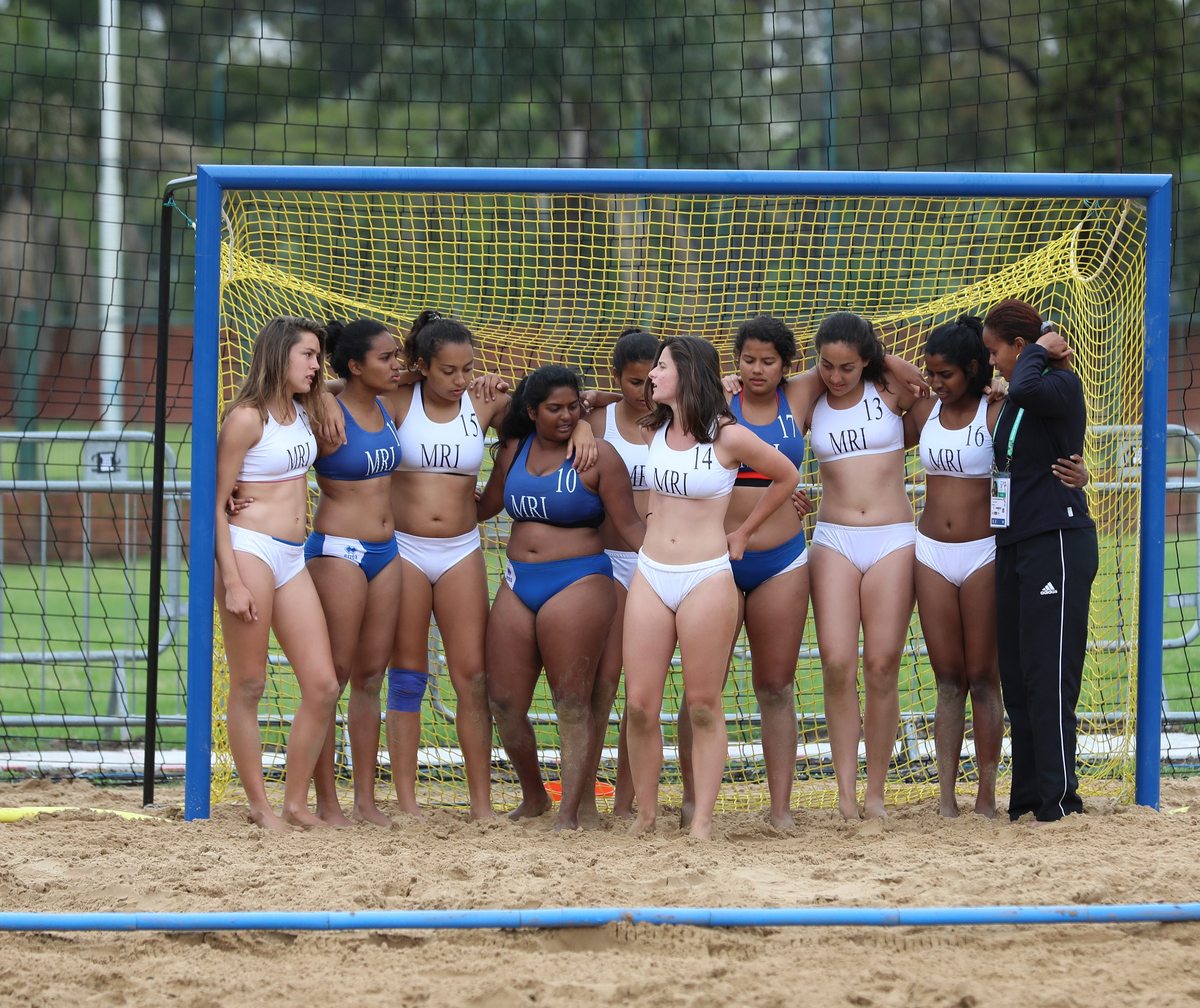 Beach handball at the 2018 Summer Youth Olympics in Buenos Aires on 12 October 2018.